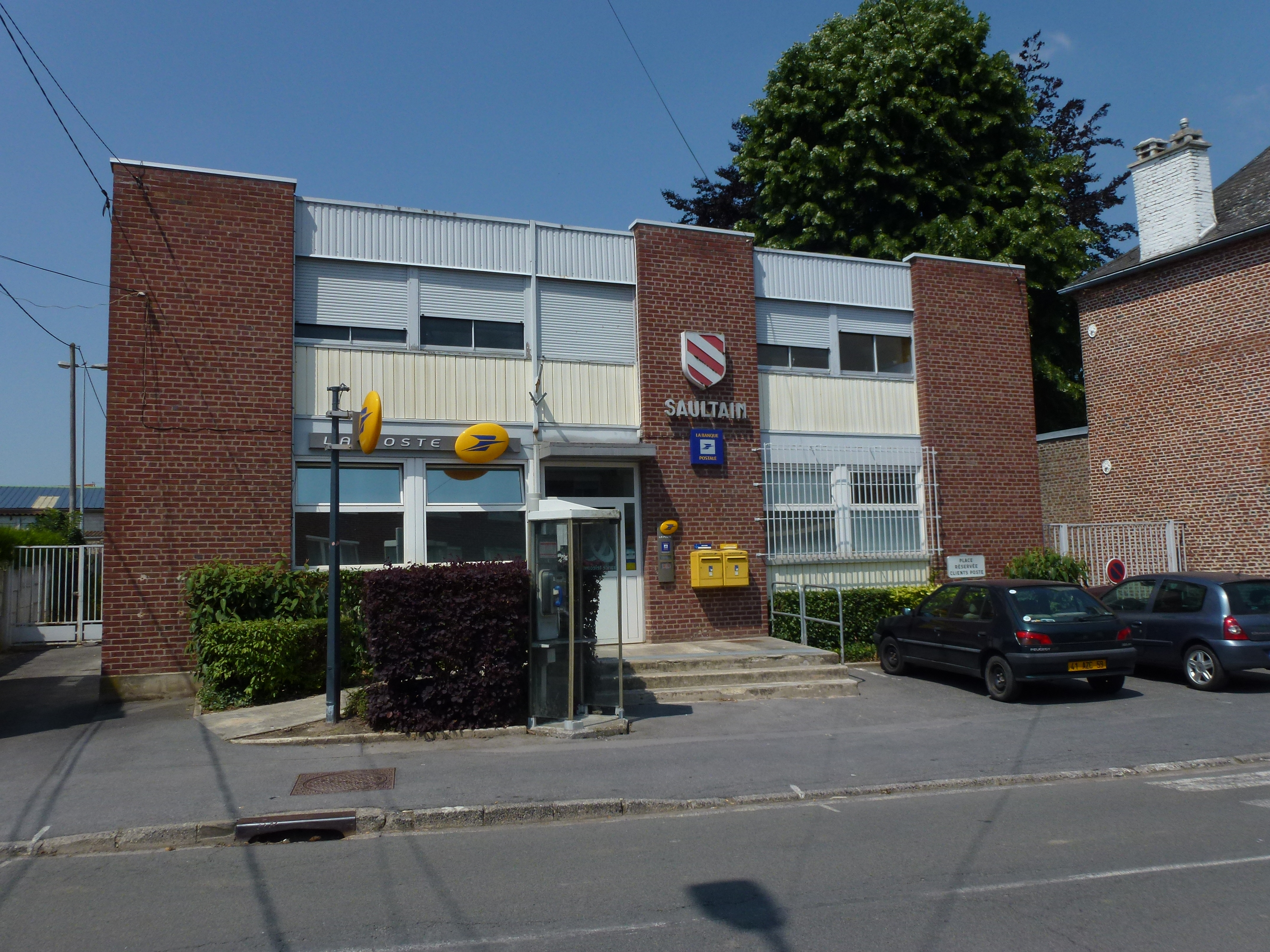 Saultain (Nord, Fr) la Poste